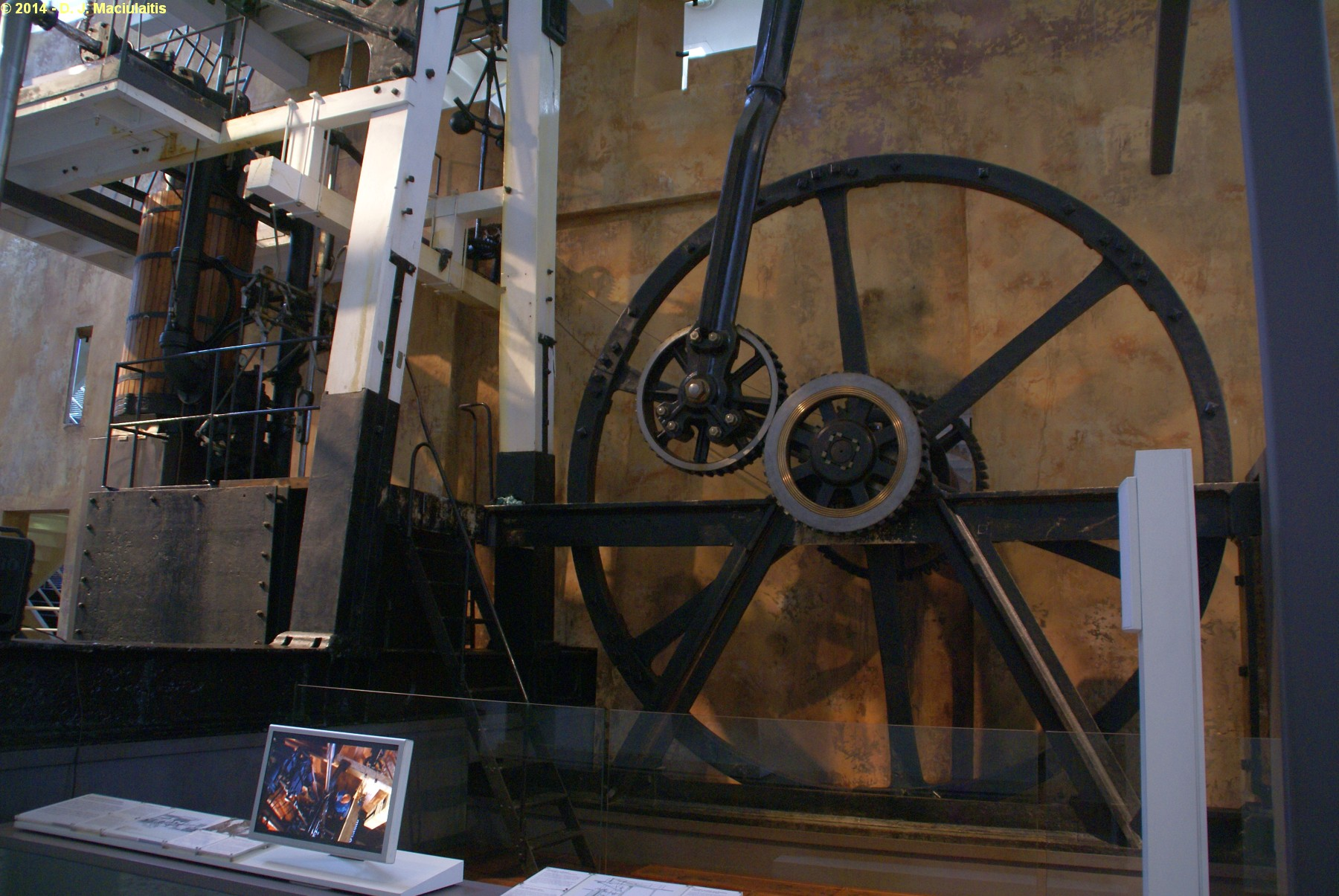 Boulton & Watt steam engine built in 1785 and decommissioned in 1887 - Powerhouse Museum - 14/10/2014